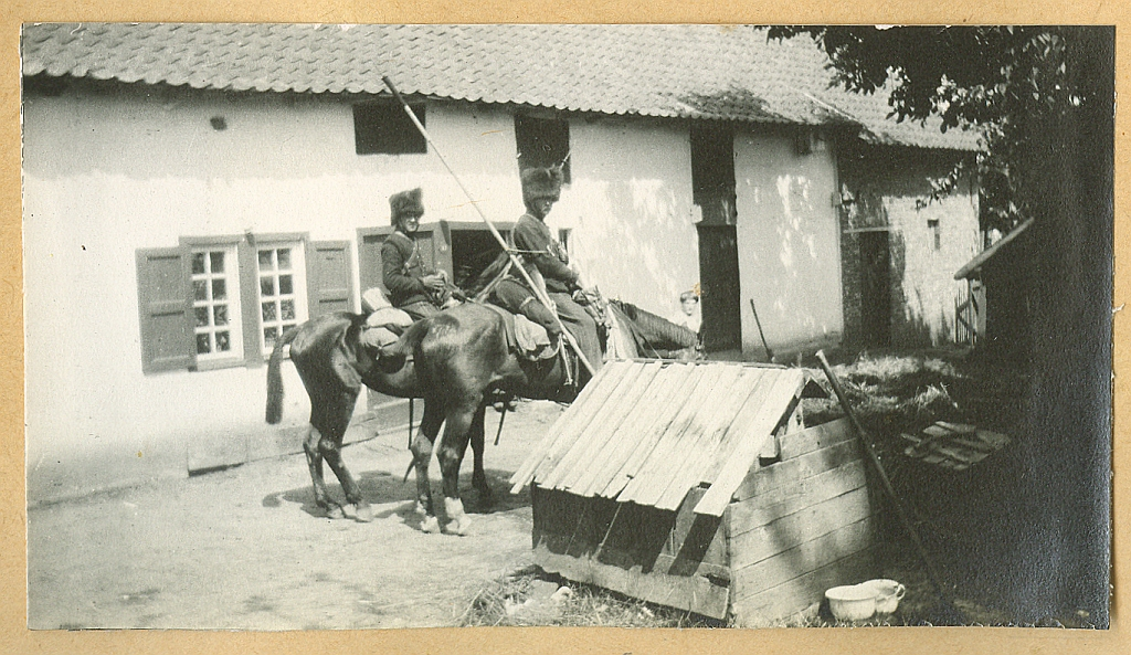 Photo by Jean Pecher. Liberaal Archief / Collectie Jean Pecher Meer informatie over de collectie / About this collection (in Dutch)